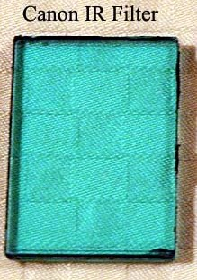 Canon 300D IR cut-off filter